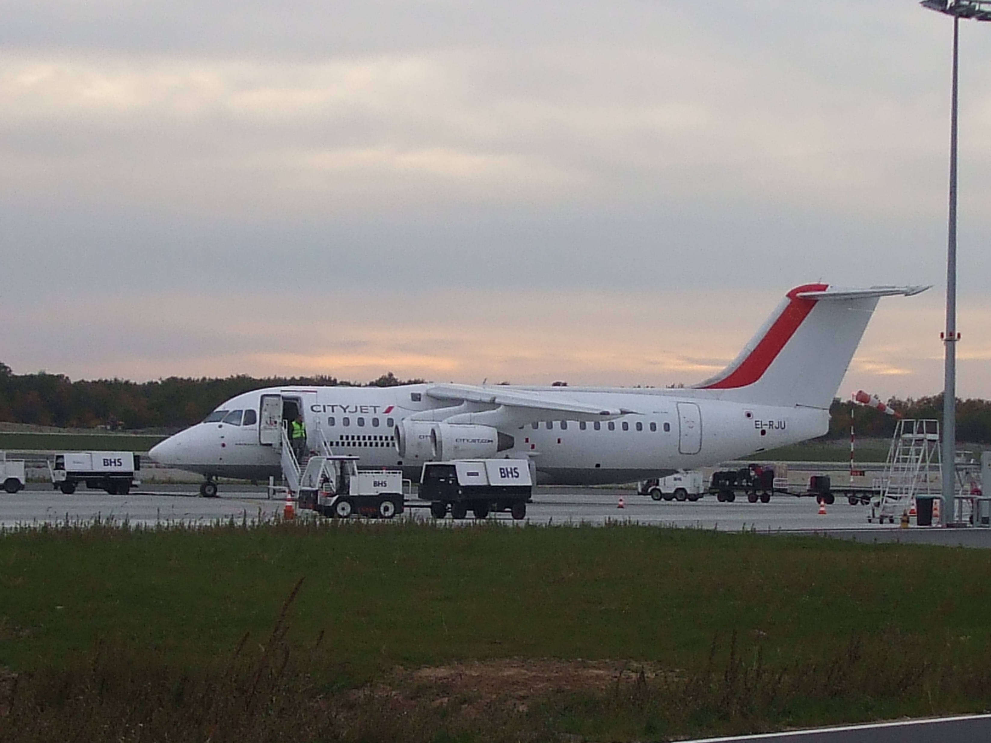 Cityjet British Aerospace Avro RJ-85 (BAE 146-200) EI-RJU, Brive Vallée de la Dordogne airport, France, flight AF 5260 Brive London City, 2010 10 29